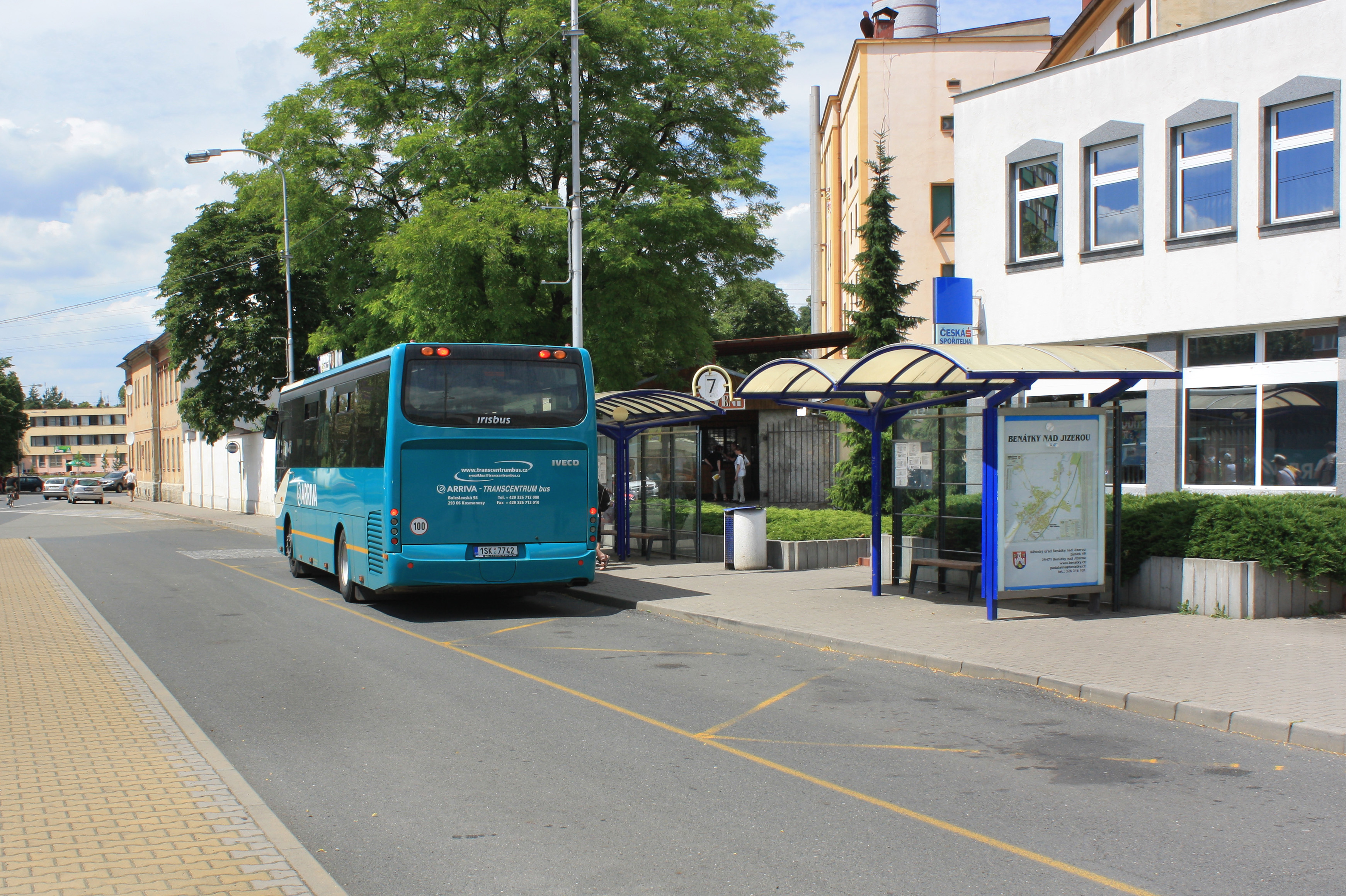 Bus station in Benátky nad Jizerou, Czech Republic